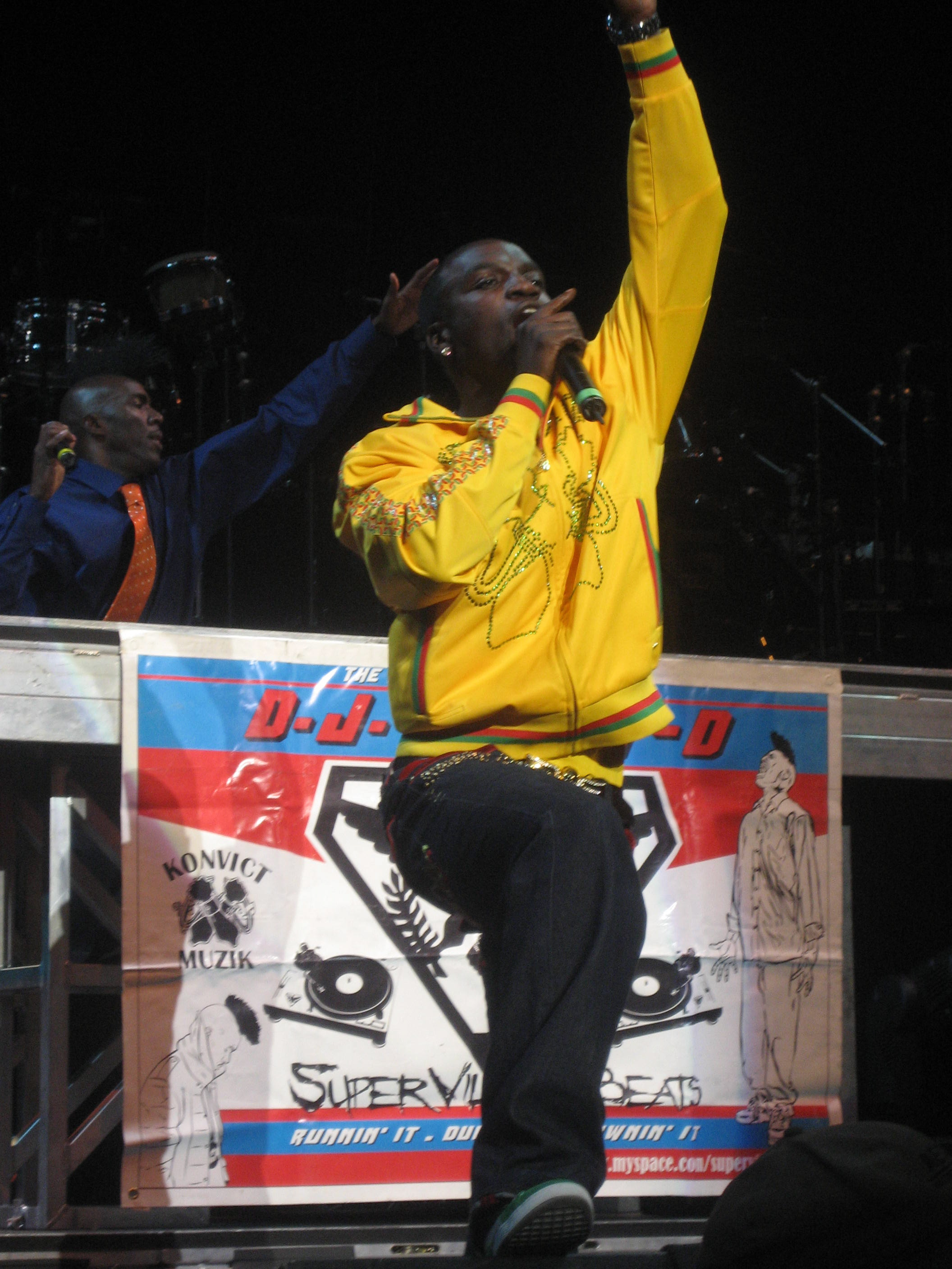 Singer Akon In center mansfield, May 23, 2007